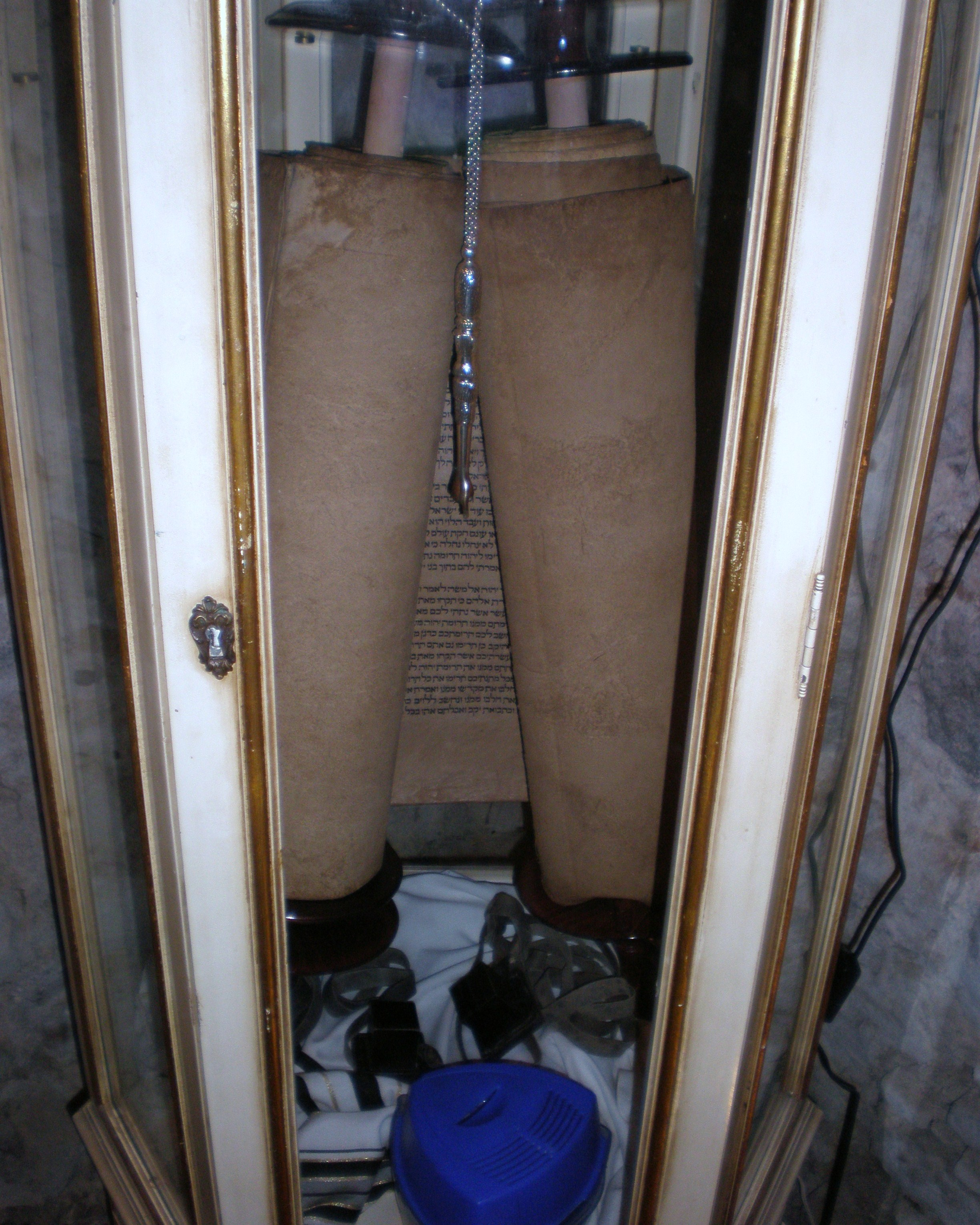 Torah from the Main Synagogue of Barcelona